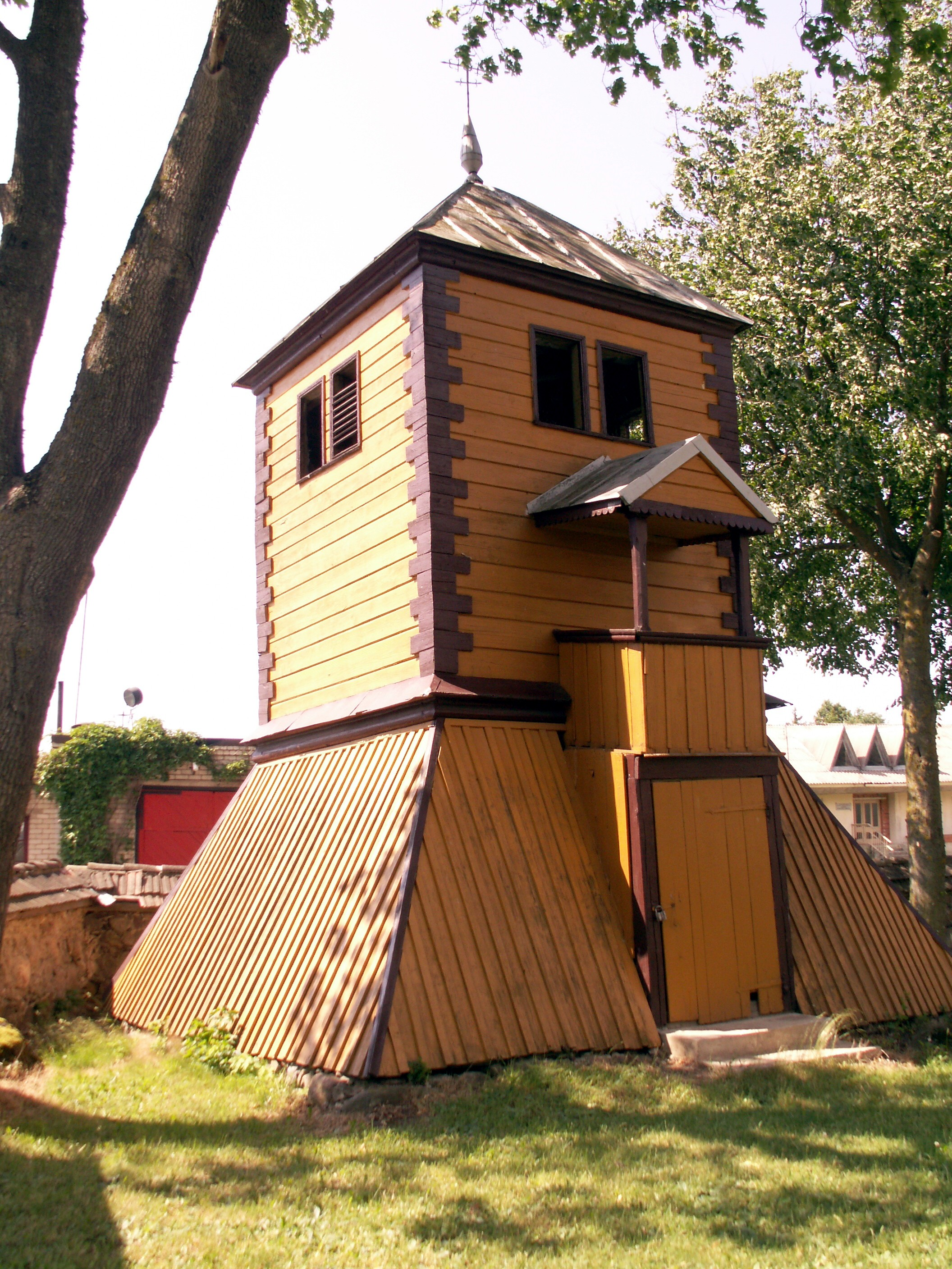 Stačiūnai, church, Pakruojis district